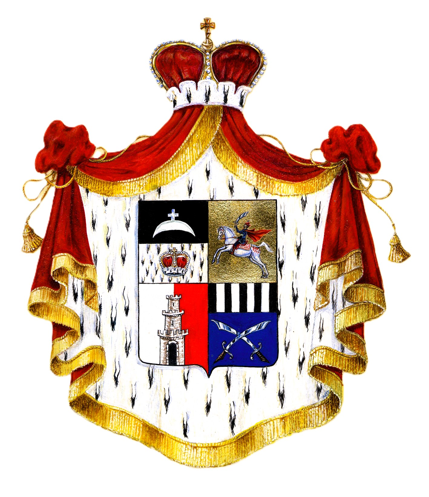 Coat of arms of the Princes Schirinsky-Schikhmatov